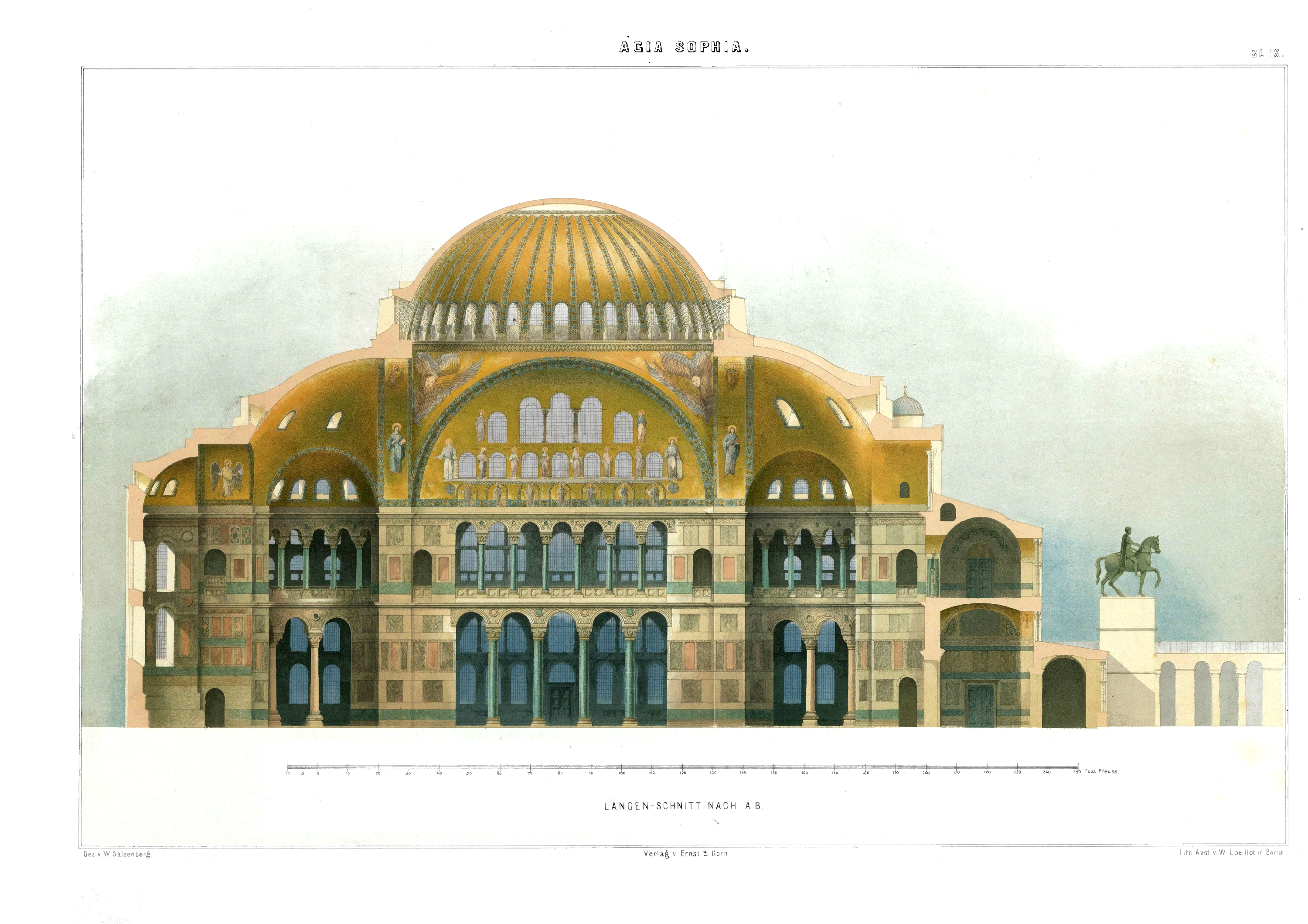 View of Haghia Sophia, plate from Wilhelm Salzenbergs Alt-Christliche Baudenkmale von Constantinopel vom V. bis XII. Jahrhundert